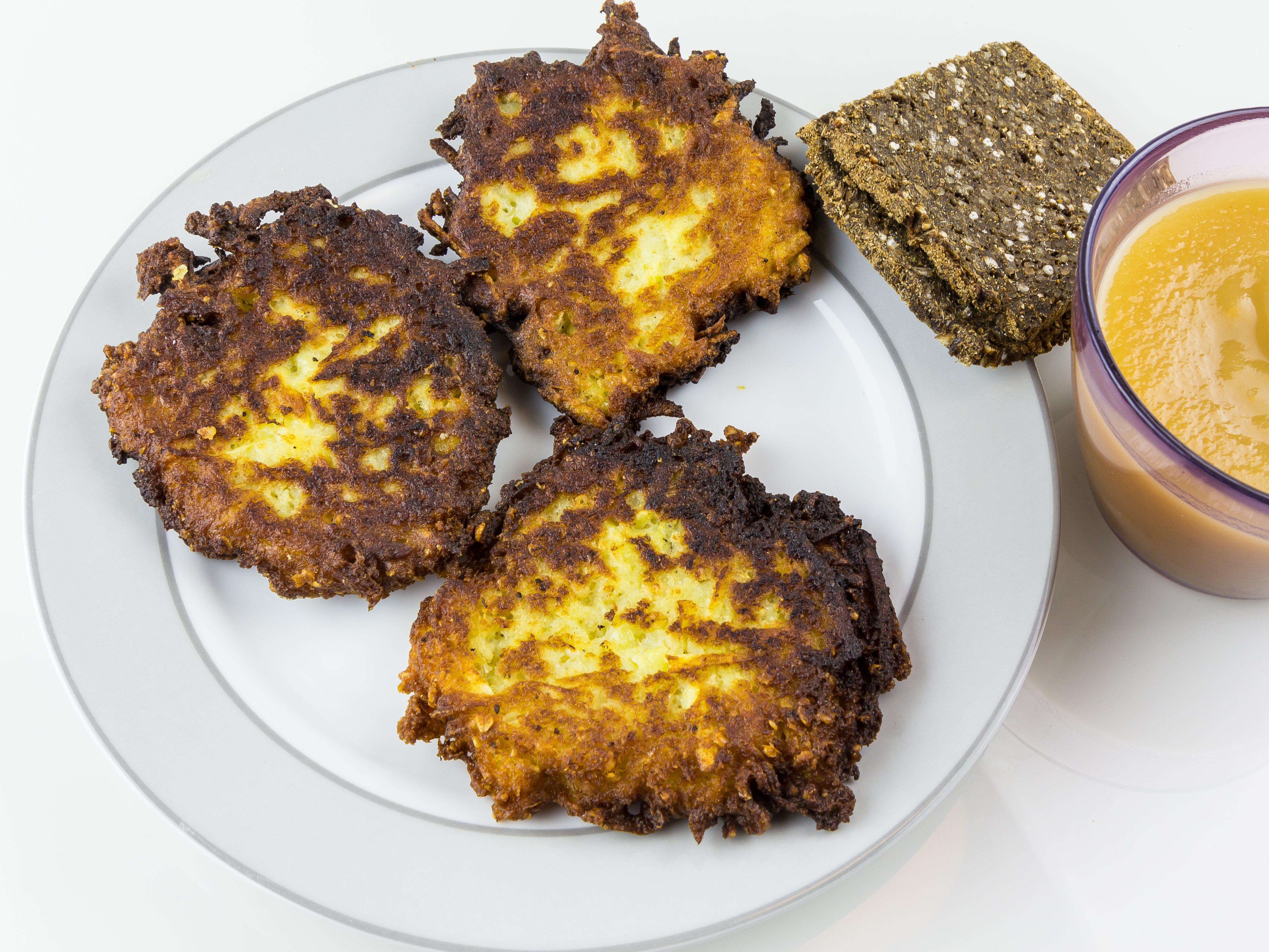 Fresh potato pancakes